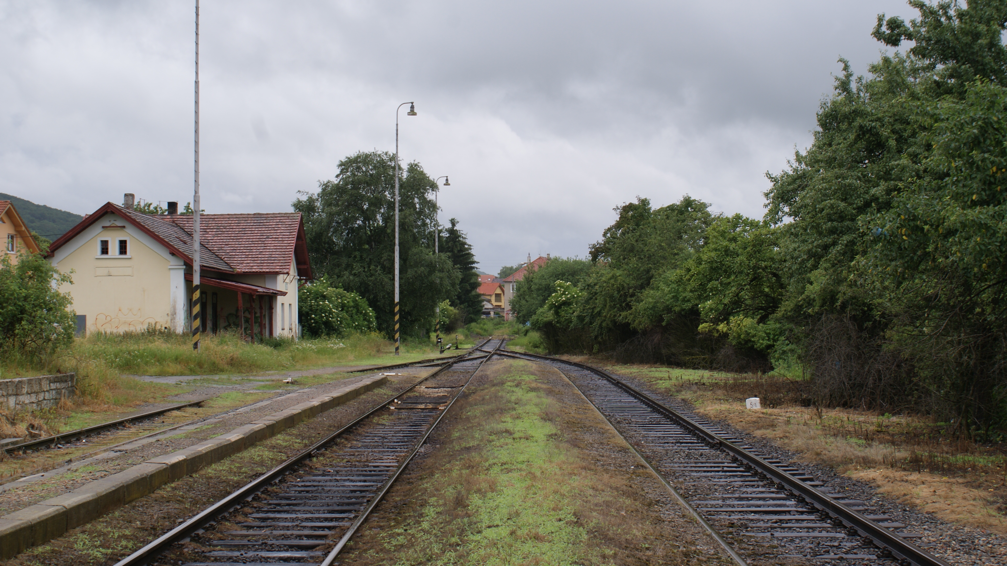 Liteň. Train station